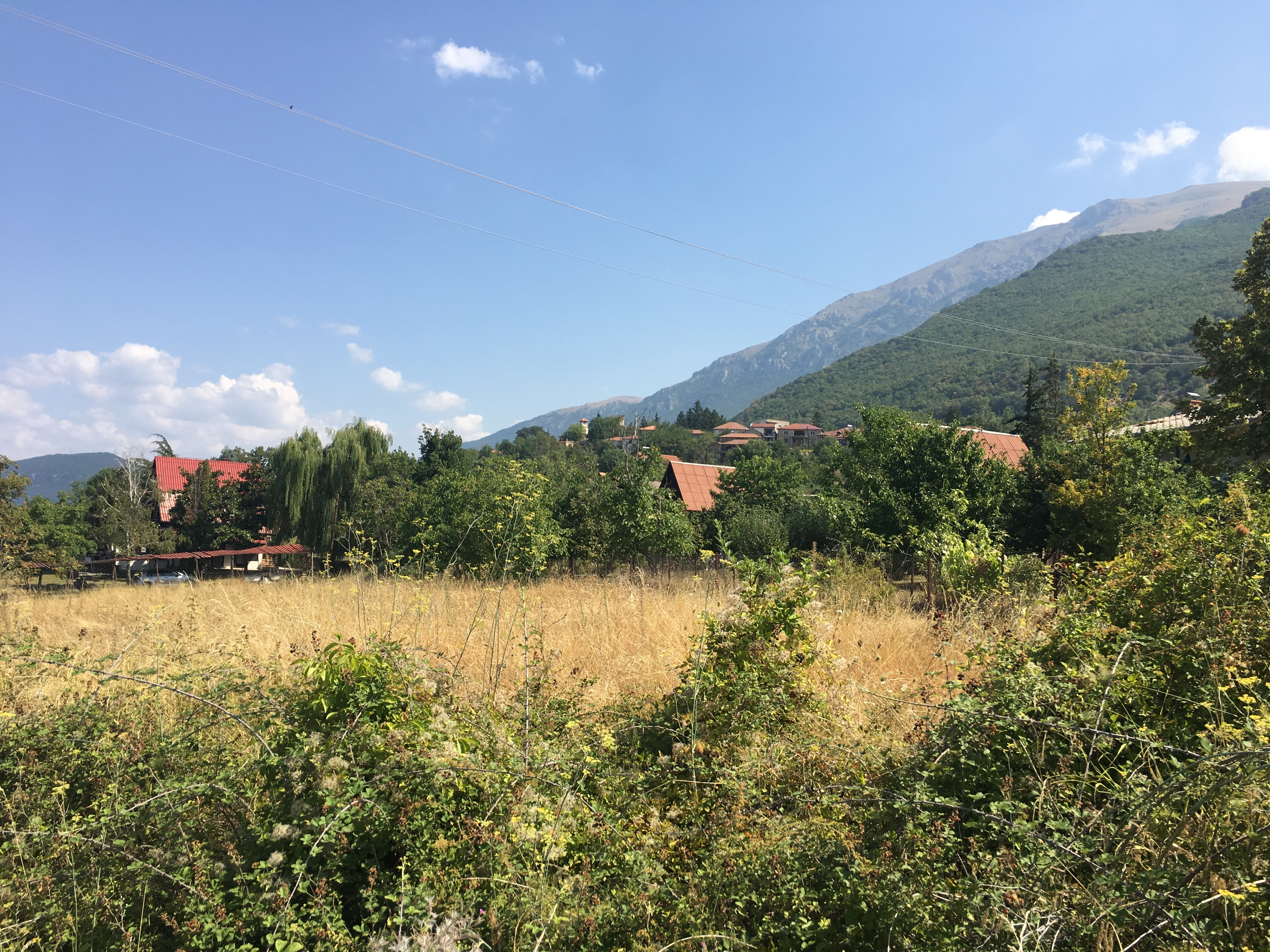 A view of the village of Ljubaništa